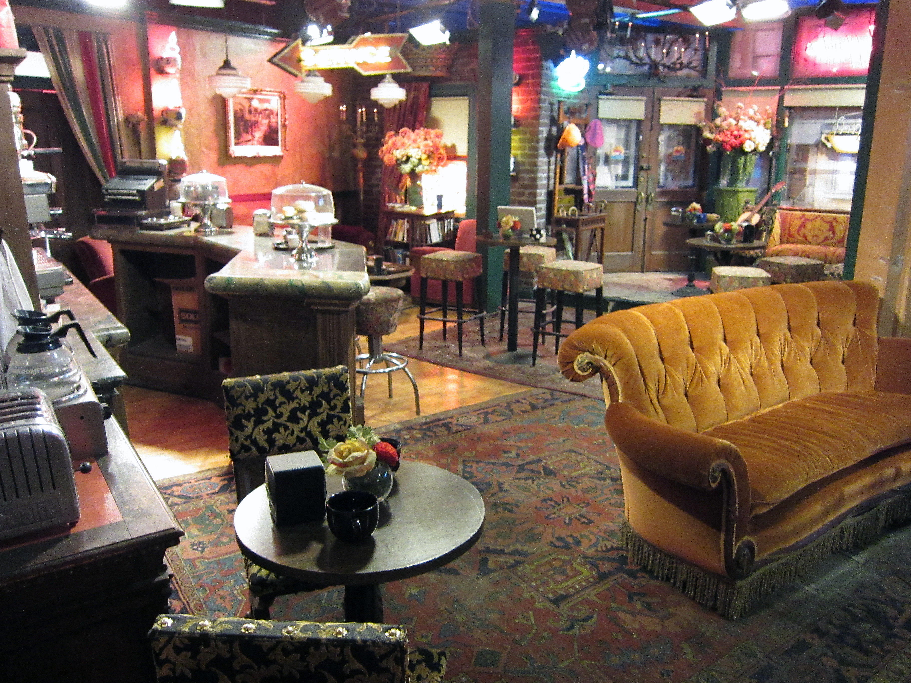 Film props and costumes displayed at Warner Bros. Studios, Burbank, , California, USA.